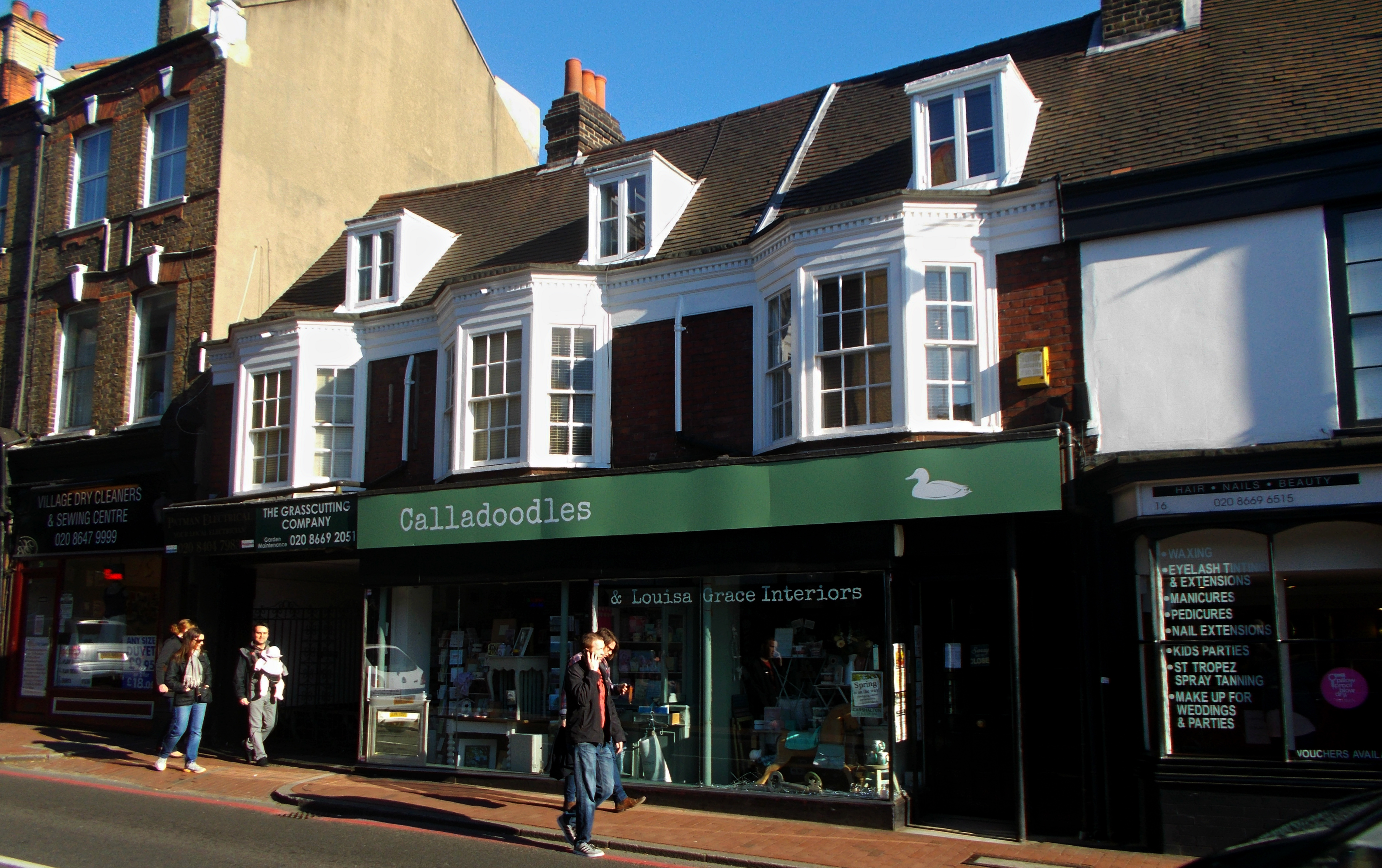 Carshalton High Street in the London Borough of Sutton